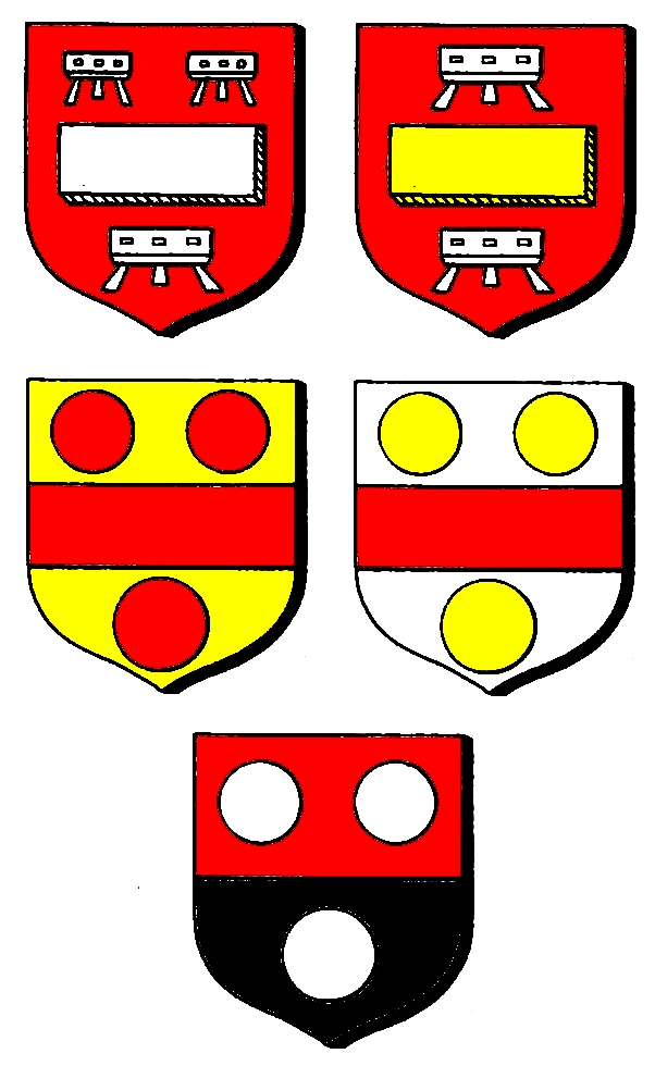 a) Gules, a fess humette between three trestles, argent b) Gules, a fess humette or between two trestles, argent c) Or, a fess gules, between three torteaux d) Gules, a fess argent, between three plates e) Per fess gules and sable, three plates